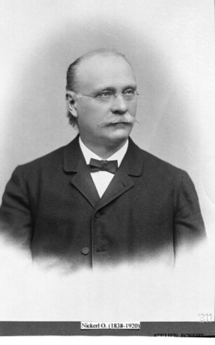 Ottokar Nickel, Czech/German enthomologist 1839-1920